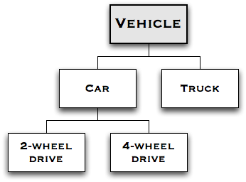 Part of an ontology of the vehicle domain